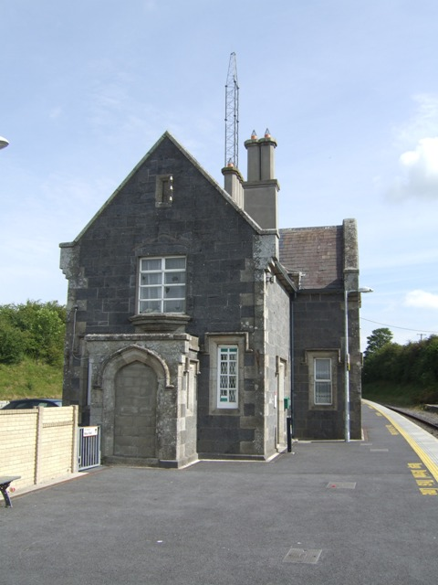 Former station building at Thomastown Station. S5741 :: Former station building at Thomastown Station, near to Baile Mhic Andain, Kilkenny, Ireland